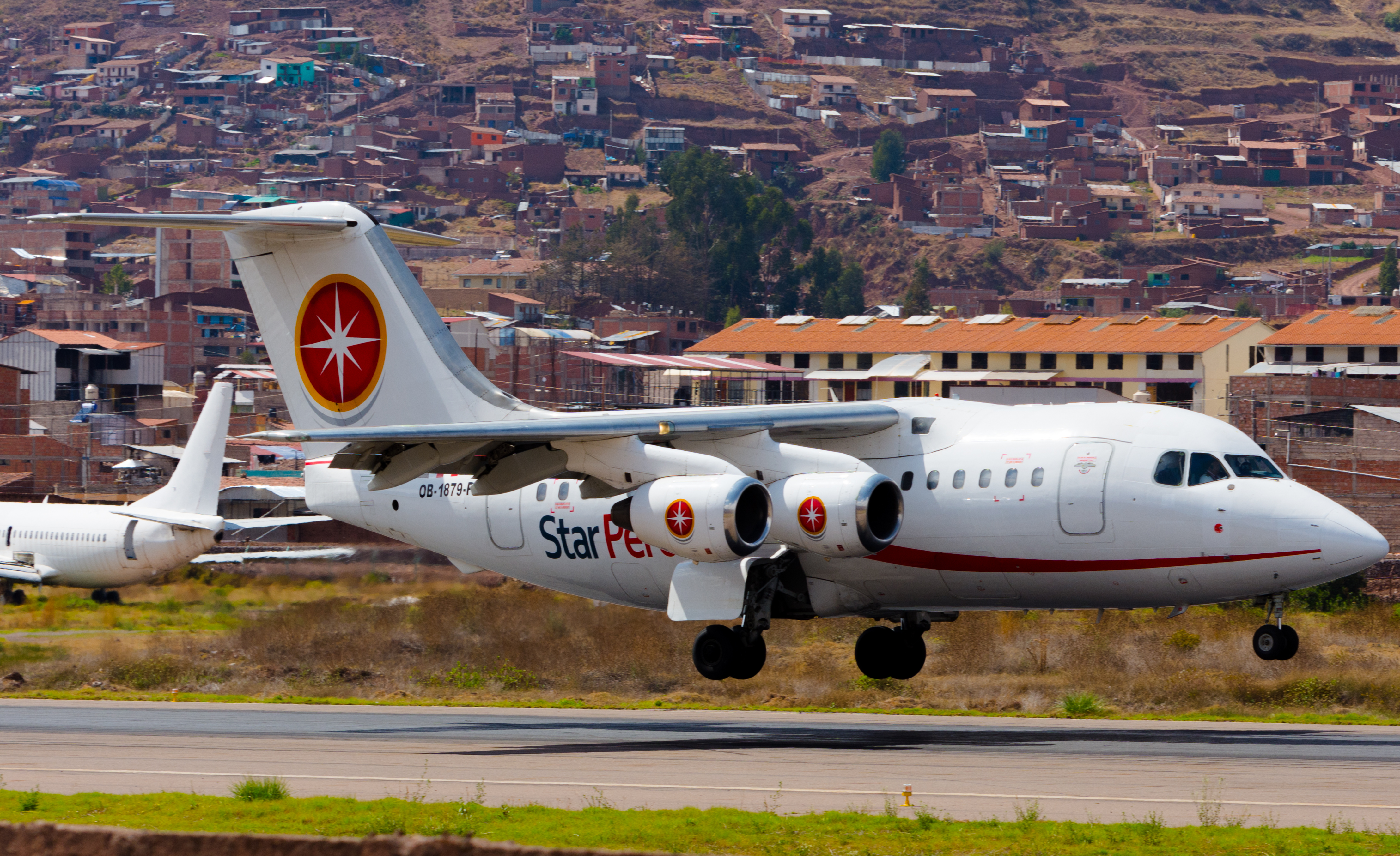 Star Perú BAe 146-100 Landing in Cusco